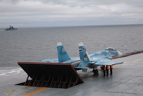 BARENTS SEA. On board the Aircraft Carrier Admiral Kuznetsov.